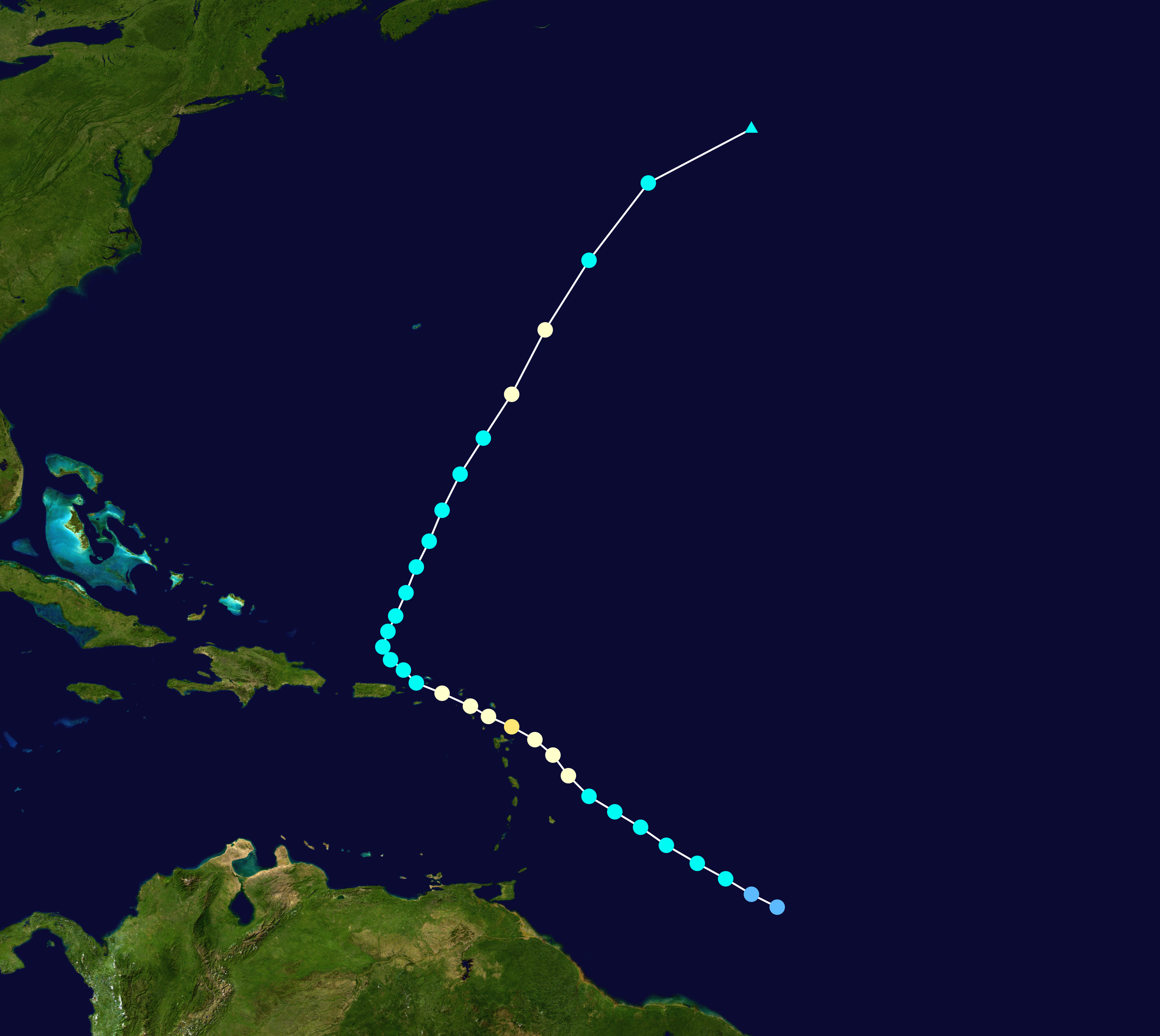 Track map of Hurricane Jose of the 1999 Atlantic hurricane season. The points show the location of the storm at 6-hour intervals. The colour represents the storm's maximum sustained wind speeds as classified in the Saffir–Simpson scale (see below), and the shape of the data points represent the nature of the storm, according to the legend below. Saffir–Simpson scale Tropical depression≤38 mph≤62 km/h Category 3111–129 mph178–208 km/h Tropical storm39–73 mph63–118 km/h Category 4130–156 mph209–251 km/h Category 174–95 mph119–153 km/h Category 5≥157 mph≥252 km/h Category 296–110 mph154–177 km/h Unknown Storm type Tropical cyclone Subtropical cyclone Extratropical cyclone / Remnant low / Tropical disturbance / Monsoon depression